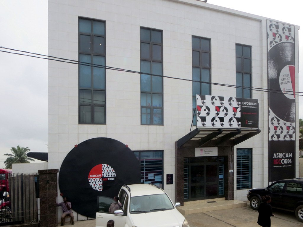 The Fondation Zinsou in Cotonou, Benin, stages contemporary art exhibitions.